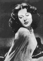 Pin-up photo of Hedy Lamarr for the May 7, 1943 issue of Yank, the Army Weekly, a weekly U.S. Army magazine fully staffed by enlisted men.